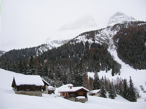 Winter in Bedretto (Switzerland Ticino) Picture taken by user:Idéfix, january 2006